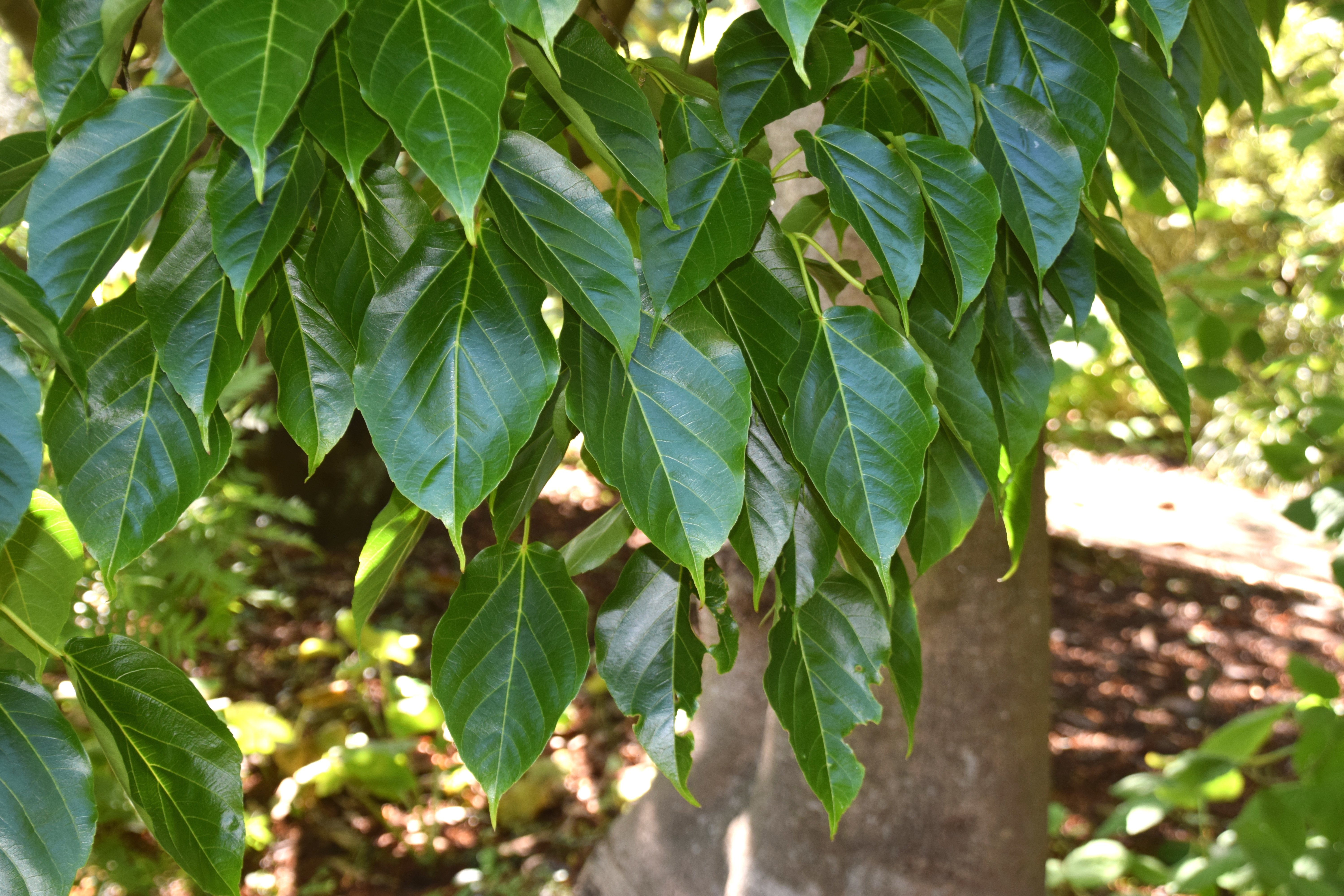 Acer sikkimense in Dunedin Botanic Garden, Dunedin, New Zealand